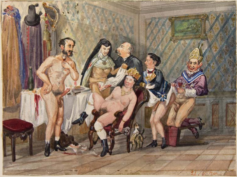 Watercolor 21 of Los Borbones en pelota: Carlos Marfori with a bottle of wine; Sr. Patrocinio receiving the gallant González Bravo; Francisco de Asís requiring González Bravo while sodomized by Father Antonio María Claret; on the ground, two puppies copulating (you can not see what sex are the said dogs).